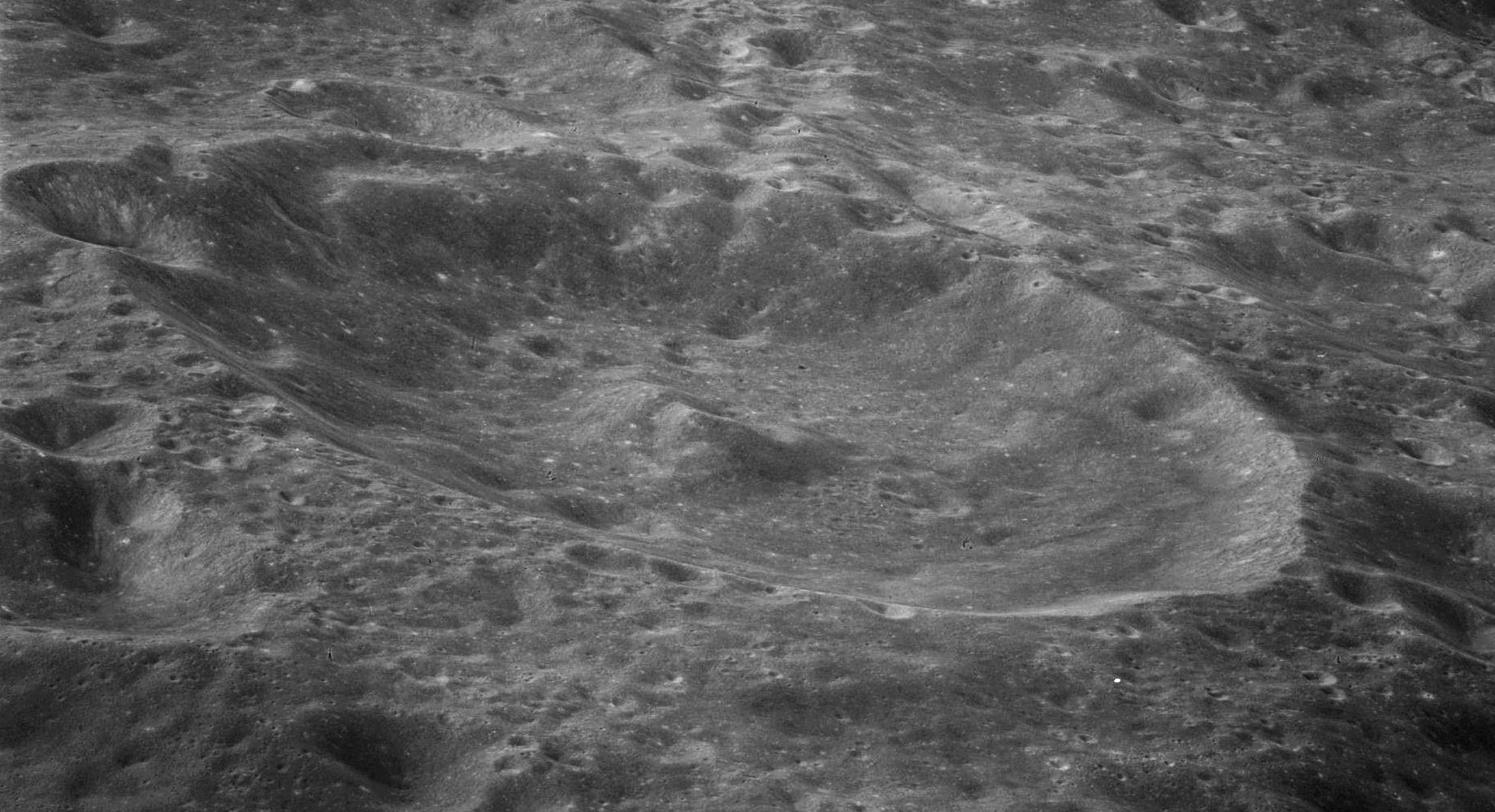 Oblique view of Ibn Firnas E crater, on the far side of the moon.